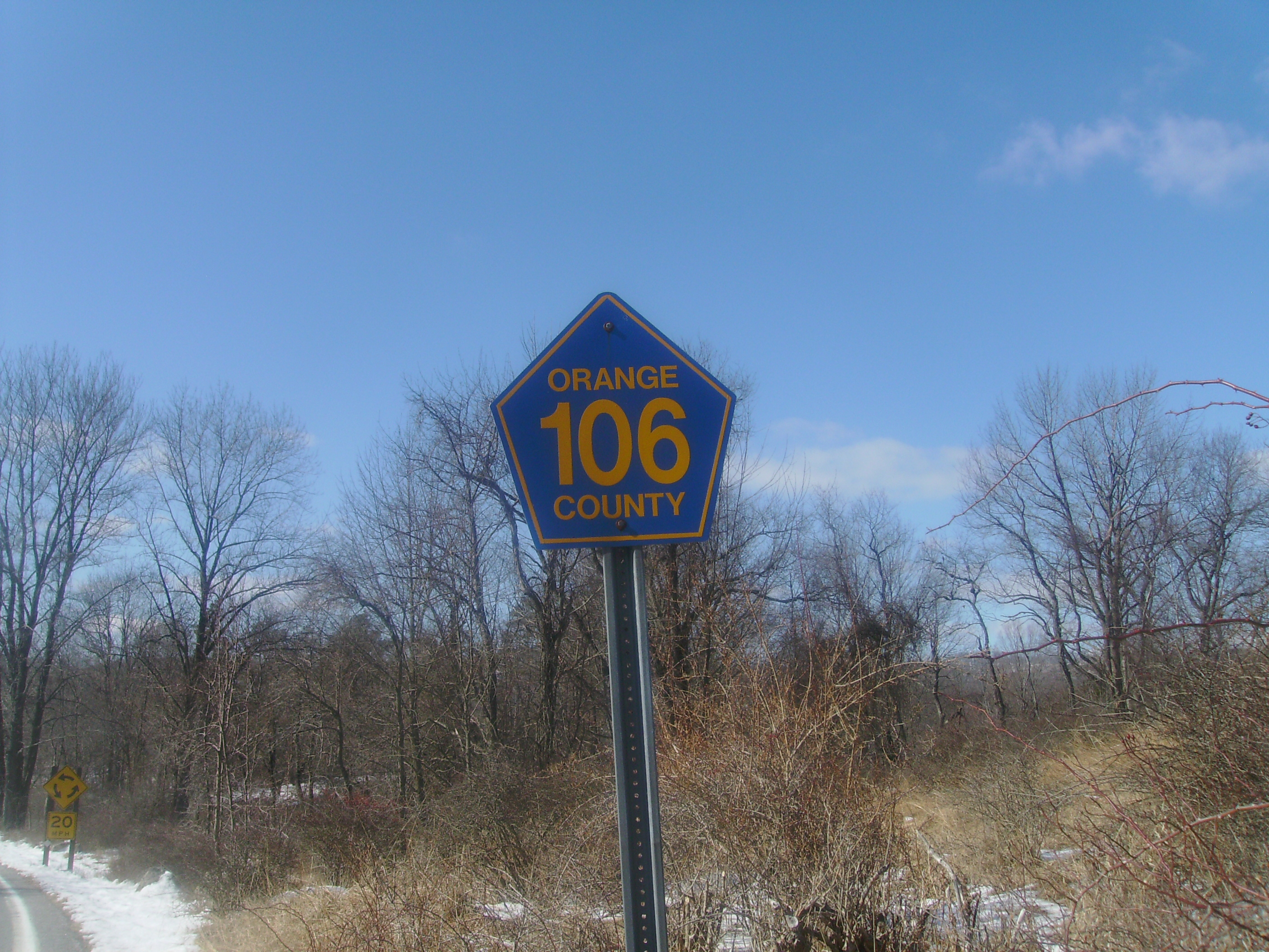 Ugly Orange County Route 106 shield